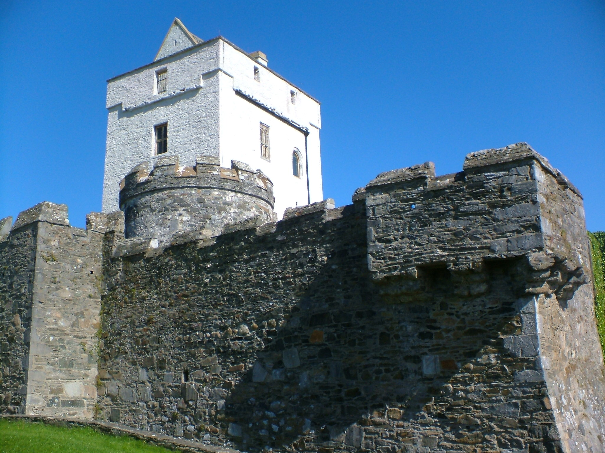 Doe castle, Co. Donegal Brendan Douglas Hamilton23 October 2004